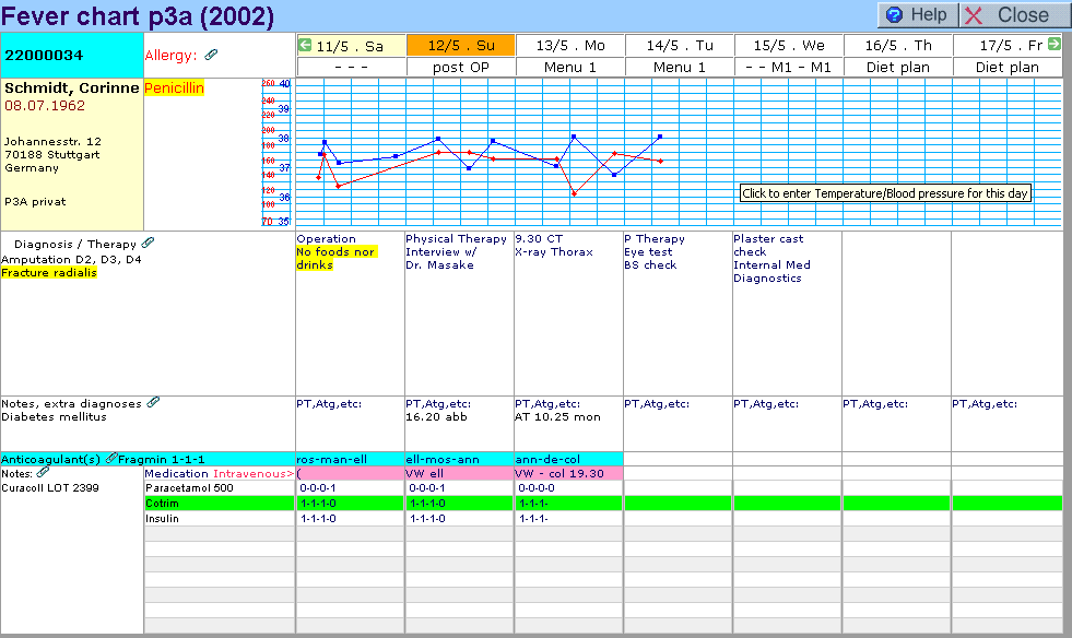 Electronic patient chart of Care2x, an open source integrated healthcare information system. for verifications